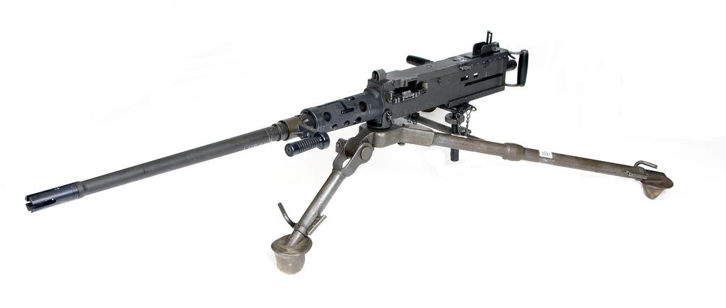 M2(HB?) Browning machine gun with M2E2 Quick Change Barrel (QCB).